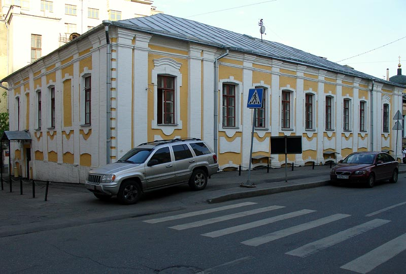 Bolshoy Afanasyevsky Lane, 20, Moscow mid-XVIII century